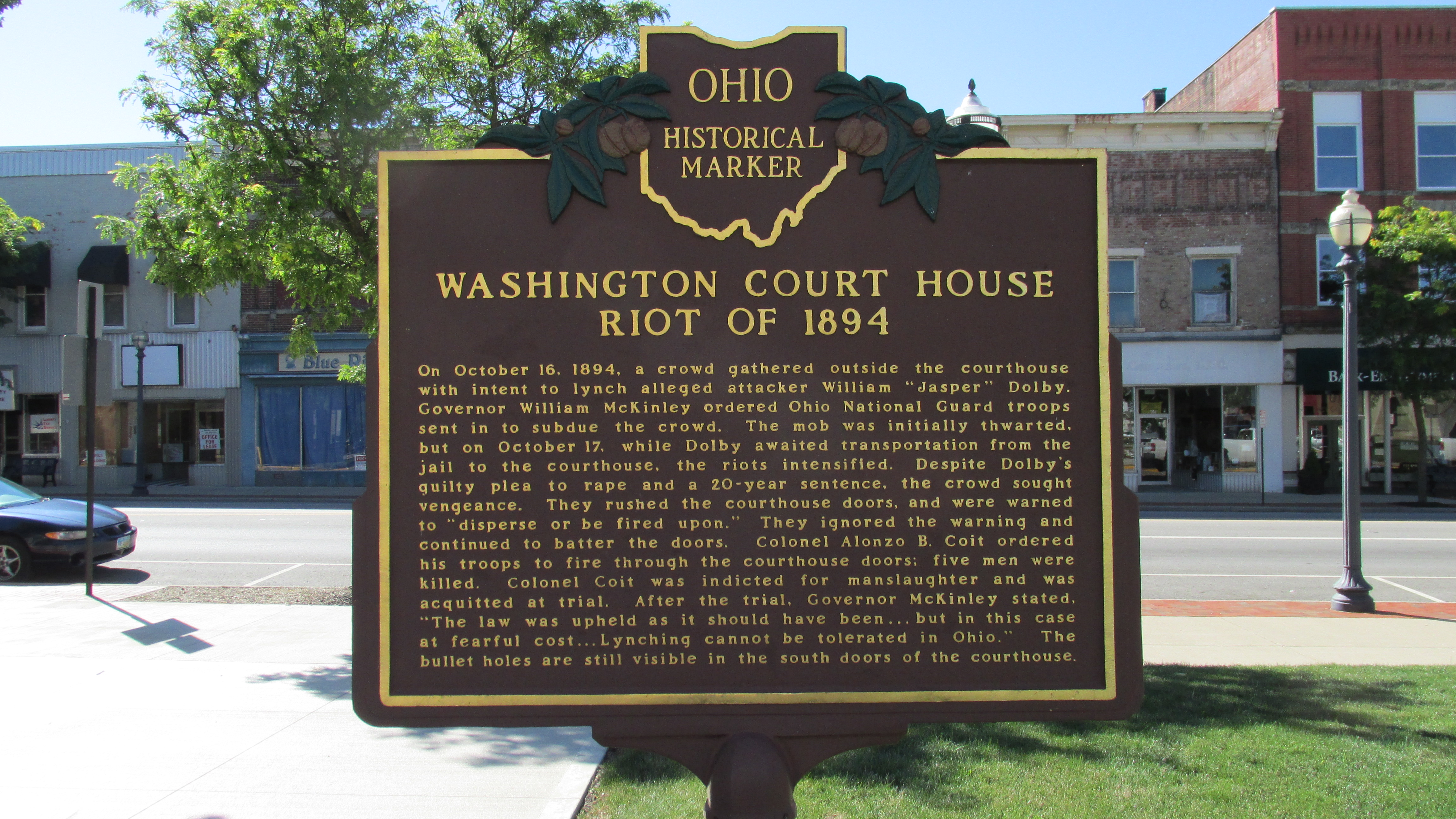 Ohio Historical Marker describing riot of 1894.